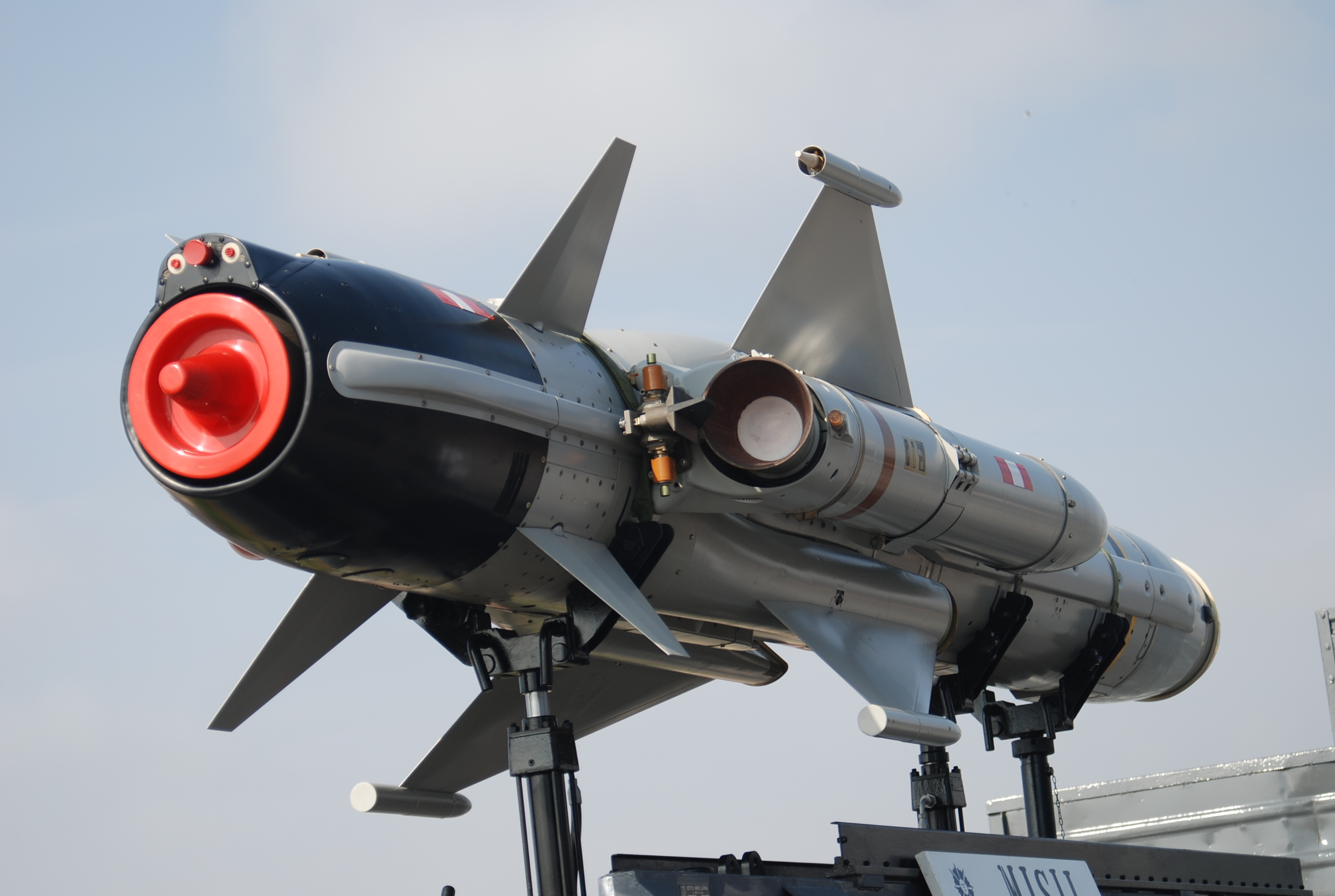 missile Otomat of Peruvian Navy